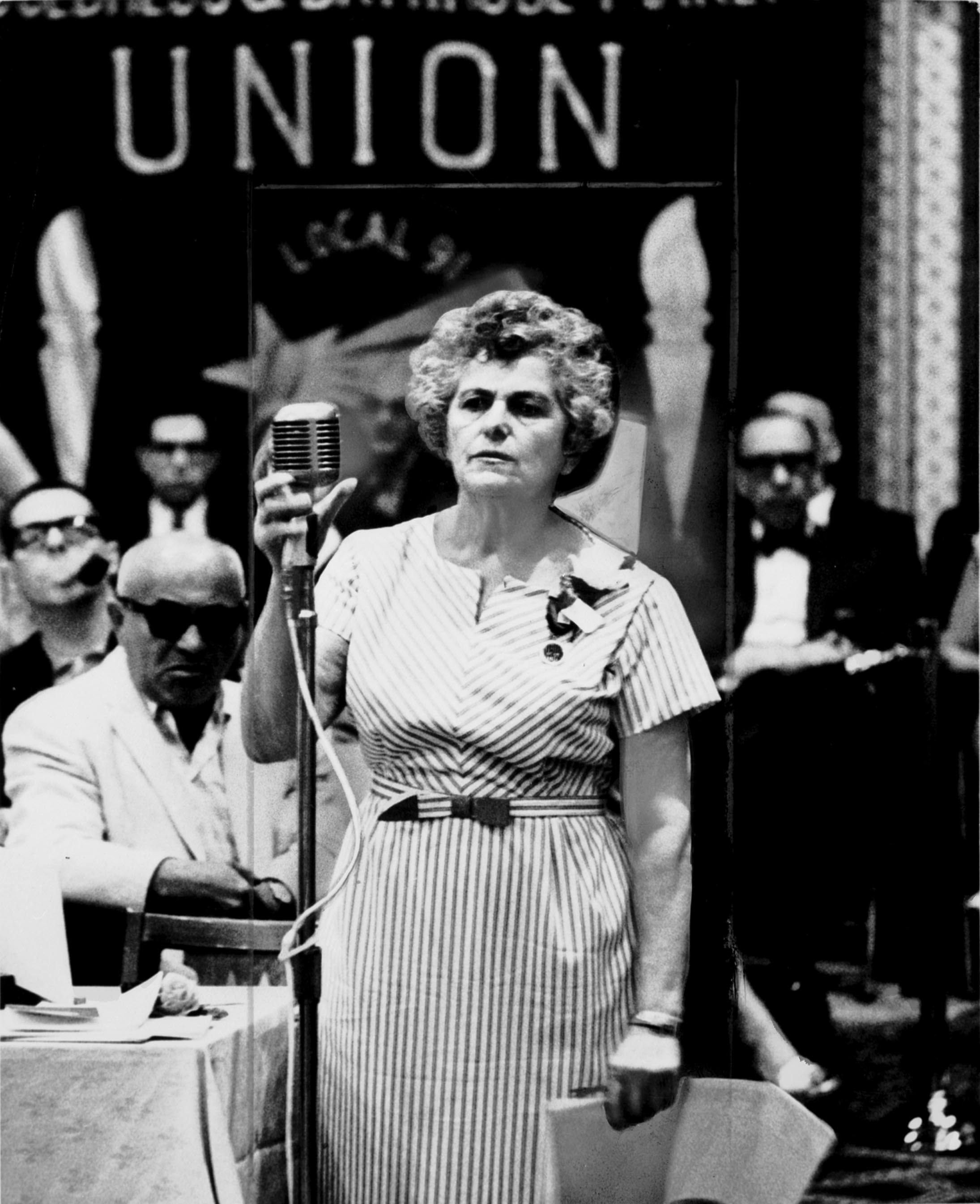 Title: Rose Pesotta addresses the floor at the 1965 ILGWU convention, December 15, 1965. Date: 1965 Photographer: Unknown Photo ID: 5780PB27F11B Collection: International Ladies Garment Workers Union Photographs (1885-1985) Repository: The Kheel Center for Labor-Management Documentation and Archives in the ILR School at Cornell University is the Catherwood Library unit that collects, preserves, and makes accessible special collections documenting the history of the workplace and labor relations. Notes: No additional information available. Copyright: The copyright status of this image is unknown. It may also be subject to third party rights of privacy or publicity. Images are being made available for purposes of private study, scholarship, and research. The Kheel Center would like to learn more about this image and hear from any copyright owners who are not properly identified so that we may make the necessary corrections. Tags: Kheel Center for Labor-Management Documentation and Archives,Cornell University Library,Conventions, Labor Leaders, Speeches, Women